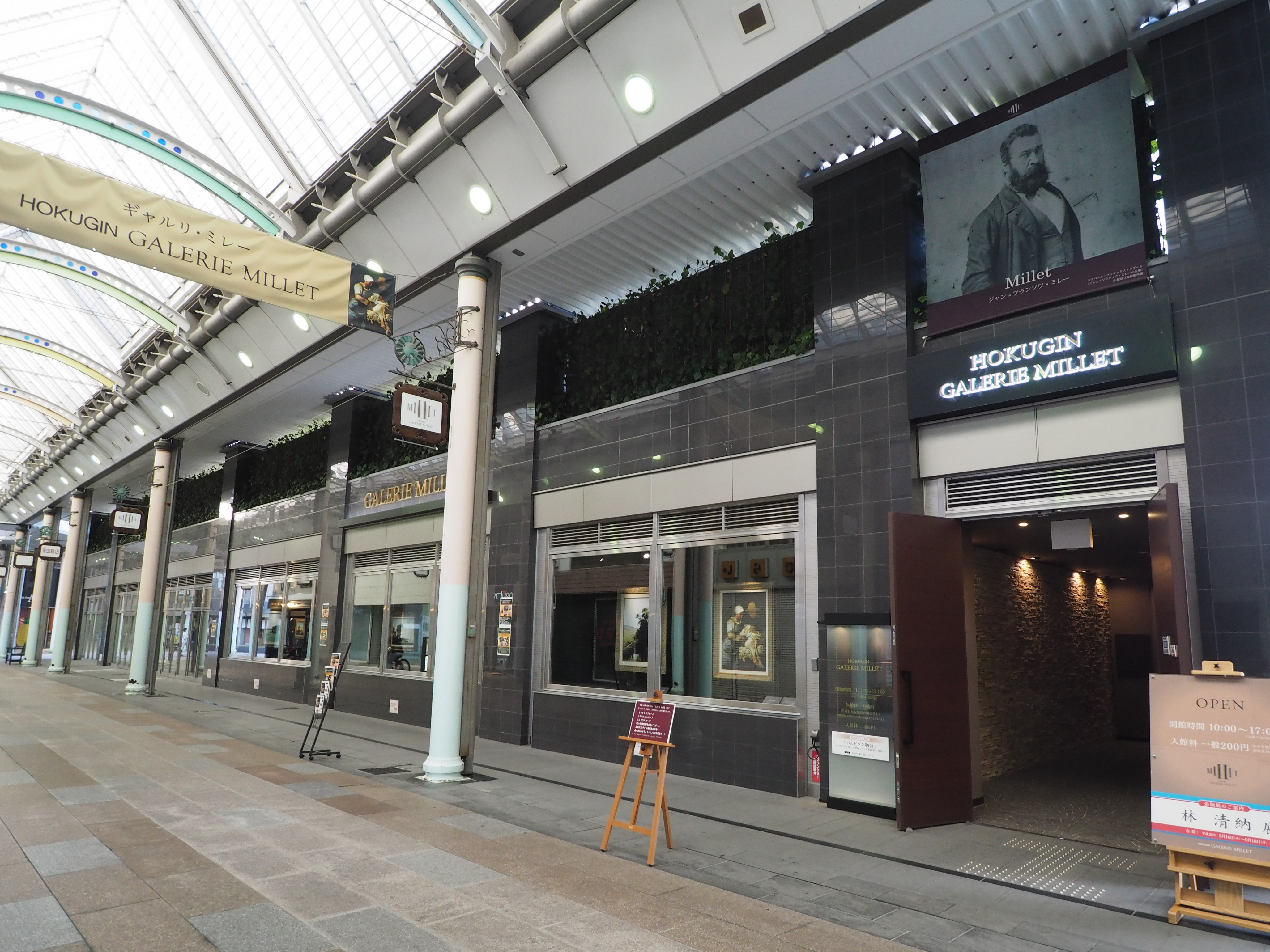 A small museum called Galerie Millet at Chu-oh-Dohri in Toyama, Japan.